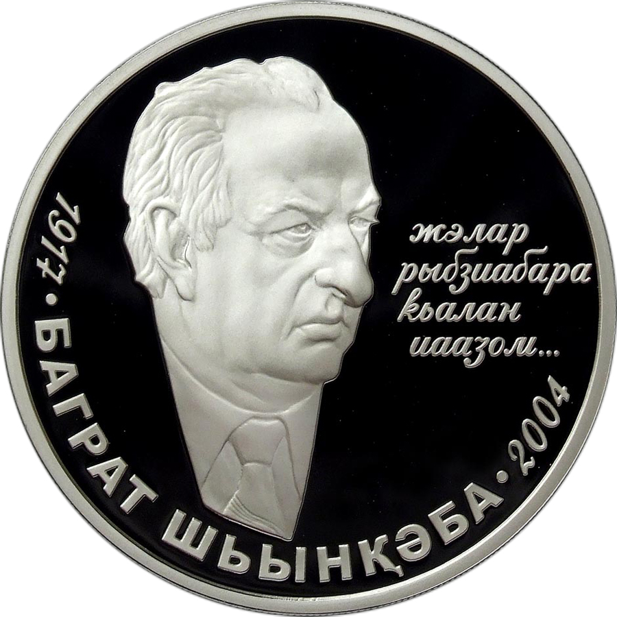 Coin «Bagrat Shinkuba», 10 apsars, 2009, Ag925, reverse